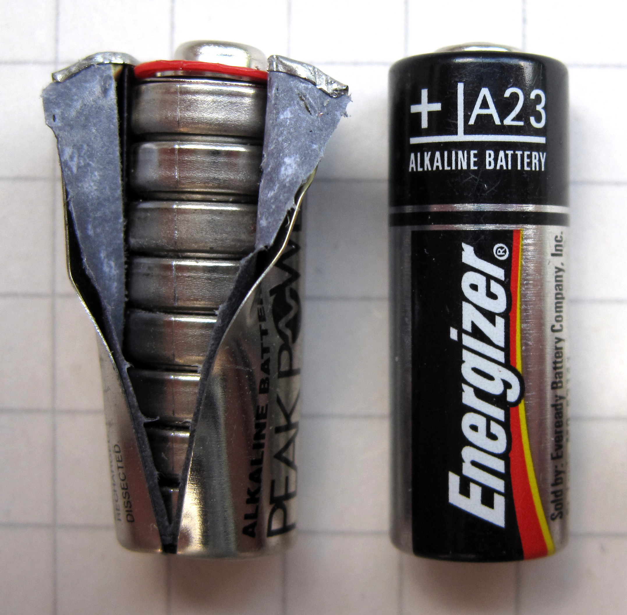 A partially open A23 battery showing the arrangement of the 8 1.5V LR932 cells. With an intact example for comparison. On a 7mm grid.